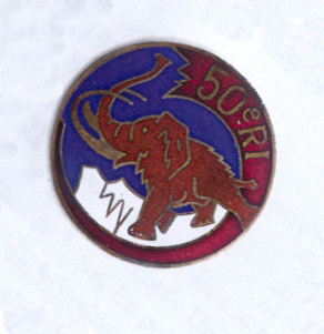 regimental badge of the 50st Infantry Regiment.(1939)